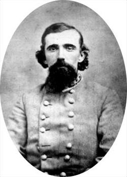 Photographer and subject both deceased more than 100 years. Accessed at